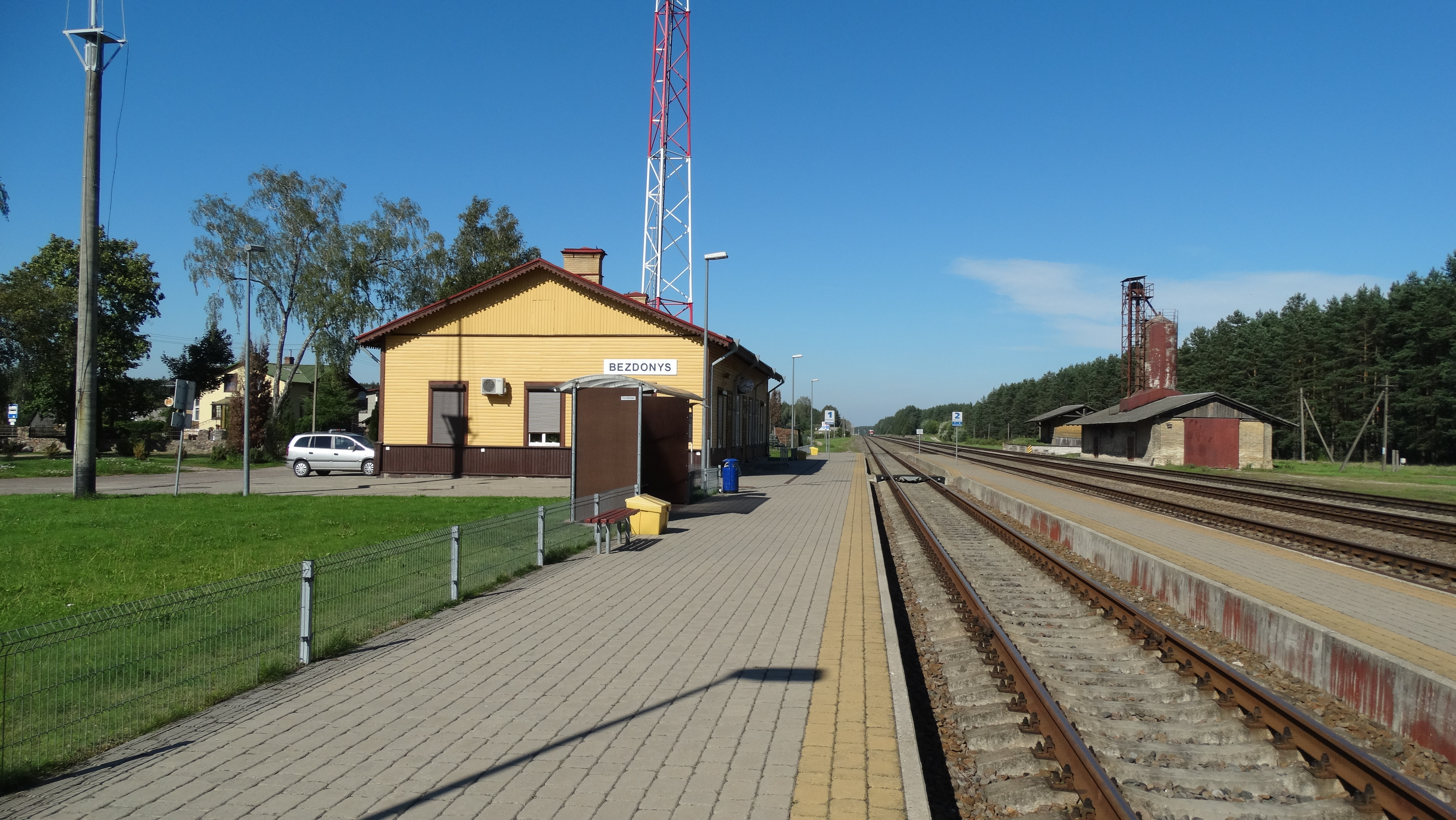 Railway station, Bezdonys, Vilnius District, Lithuania